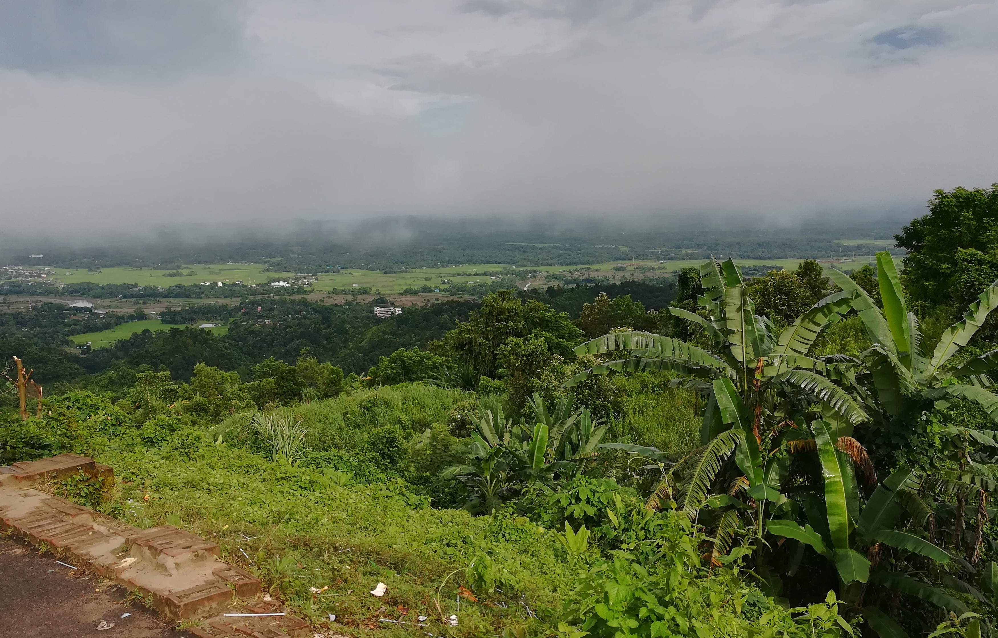 Alutila